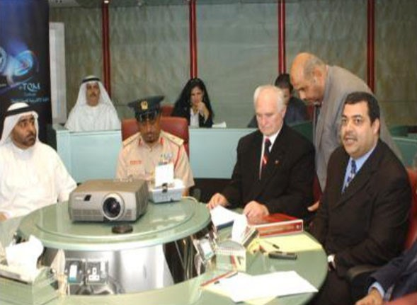 This was the photo taken by professor zairi assistant.